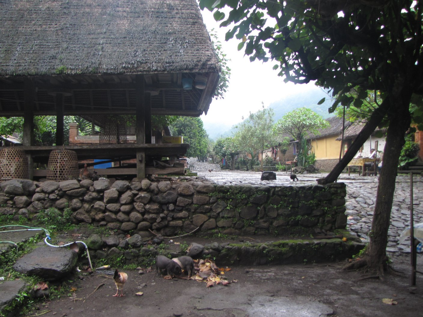 Tenganan